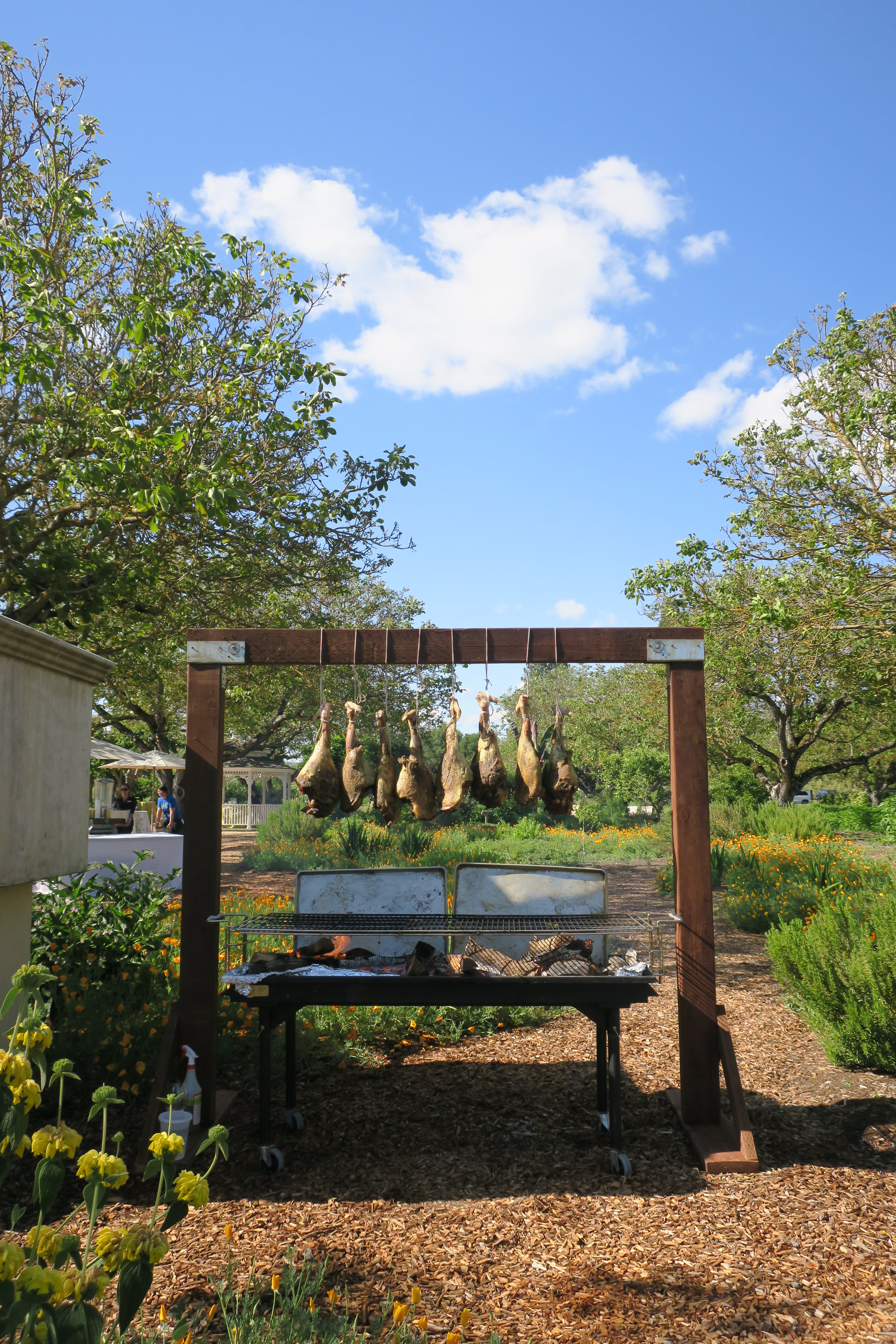 Lamb legs grilling over an open fire outside for the Farm-to-Table Dinner at Kendall-Jackson Wine Estate & Garden